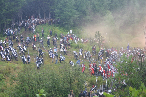 Players taking part in Bicolline La Grande Bataille (the Great Battle of Bicolline) in Quebec in 2005, a fantasy live action role-playing battle with 2000 participants using foam weapons.